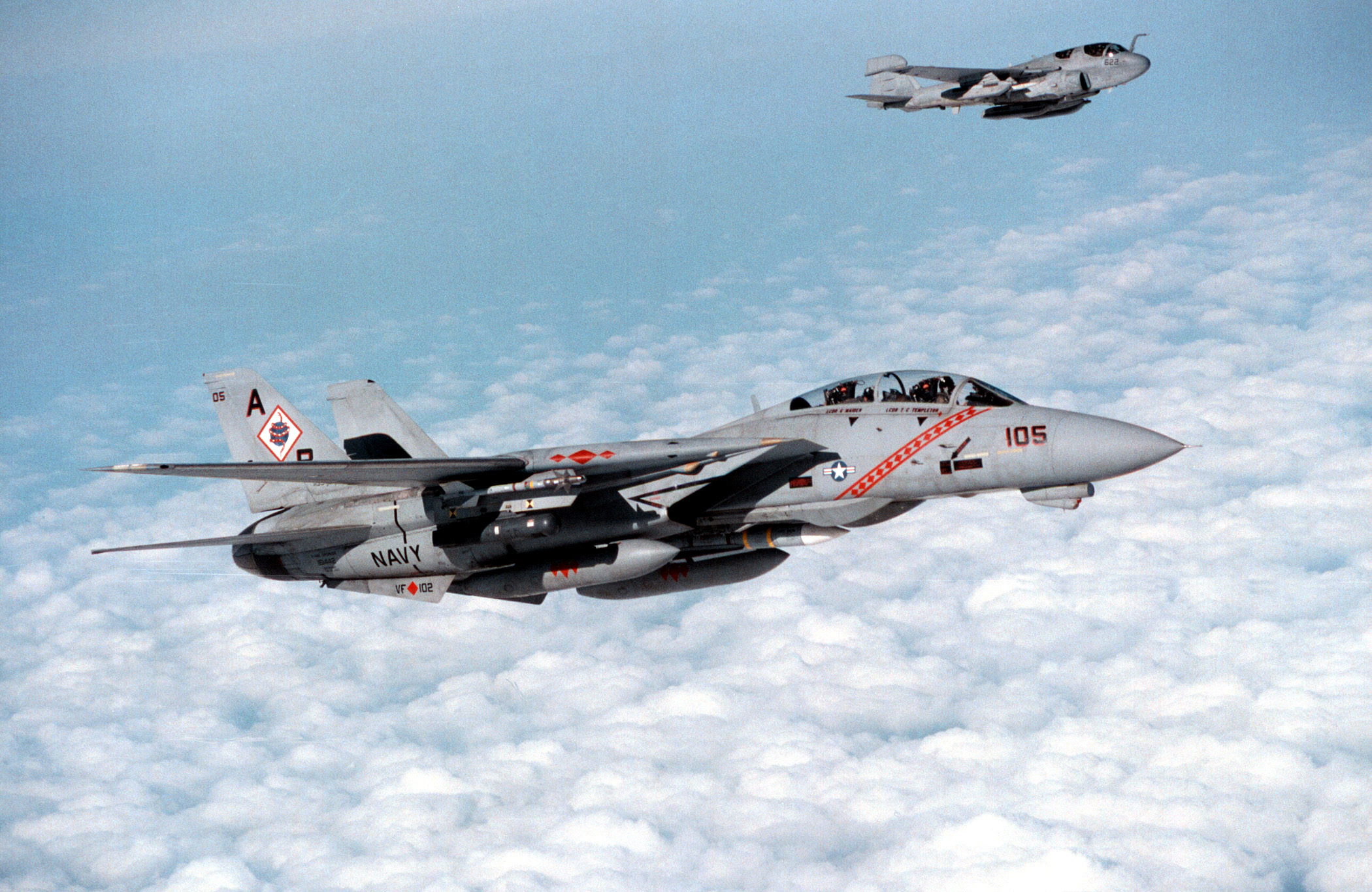 An F-14B Tomcat aircraft, assigned to Fighter Squadron (VF) 102, accompanied by an EA-6B Prowler aircraft, with Electronic Warfare Squadron (VAQ) 137, flies over Iraq Jan. 1, 1998. VF-102 and VAQ-137 are assigned to Carrier Air Wing One (CVW-1) on board the aircraft carrier USS George Washington (CVN 73). (U.S. Navy photo by Lt. Bryan Fetter/Released)